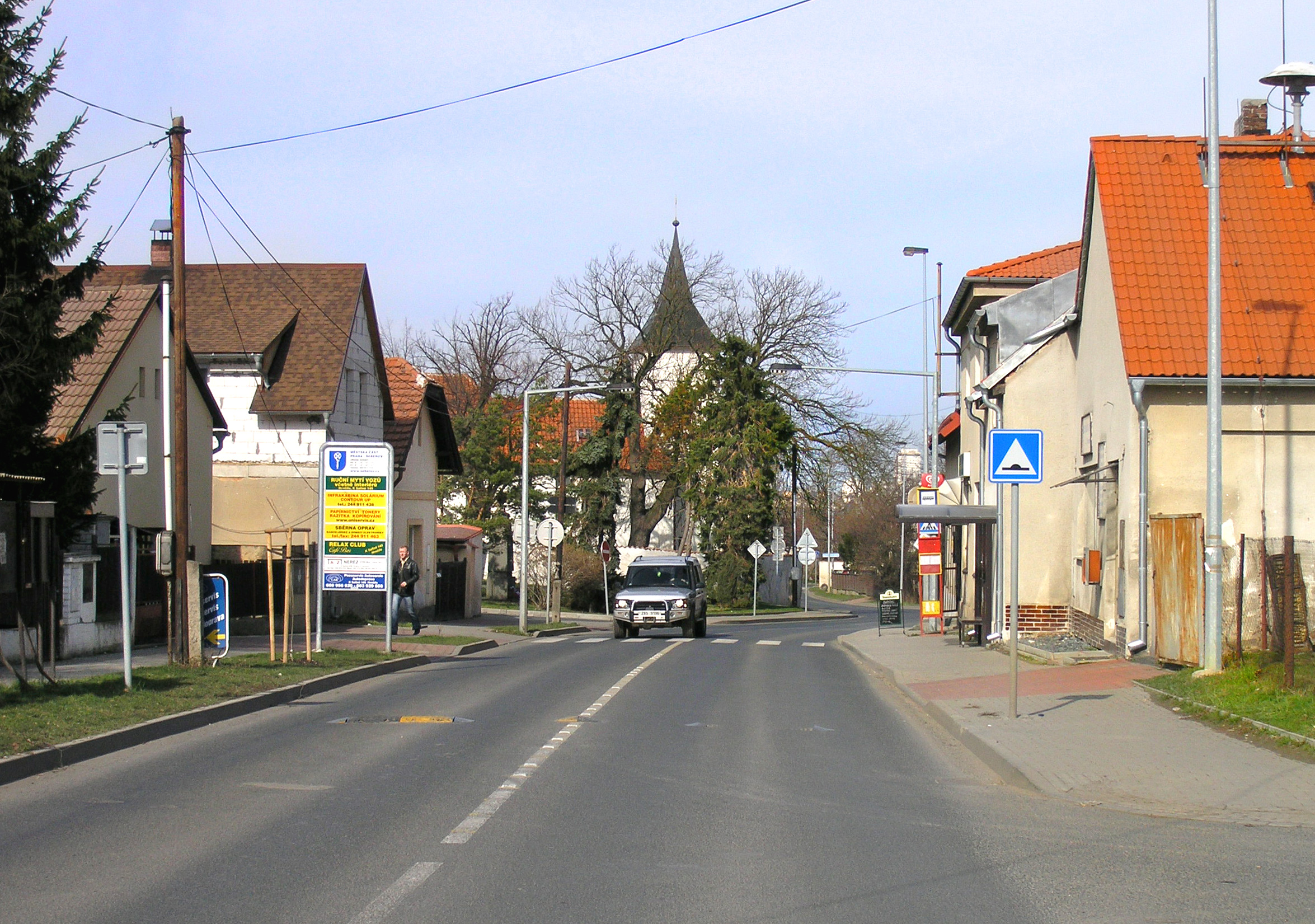 Hrnčíře with Svatý Prokop Church, Prague